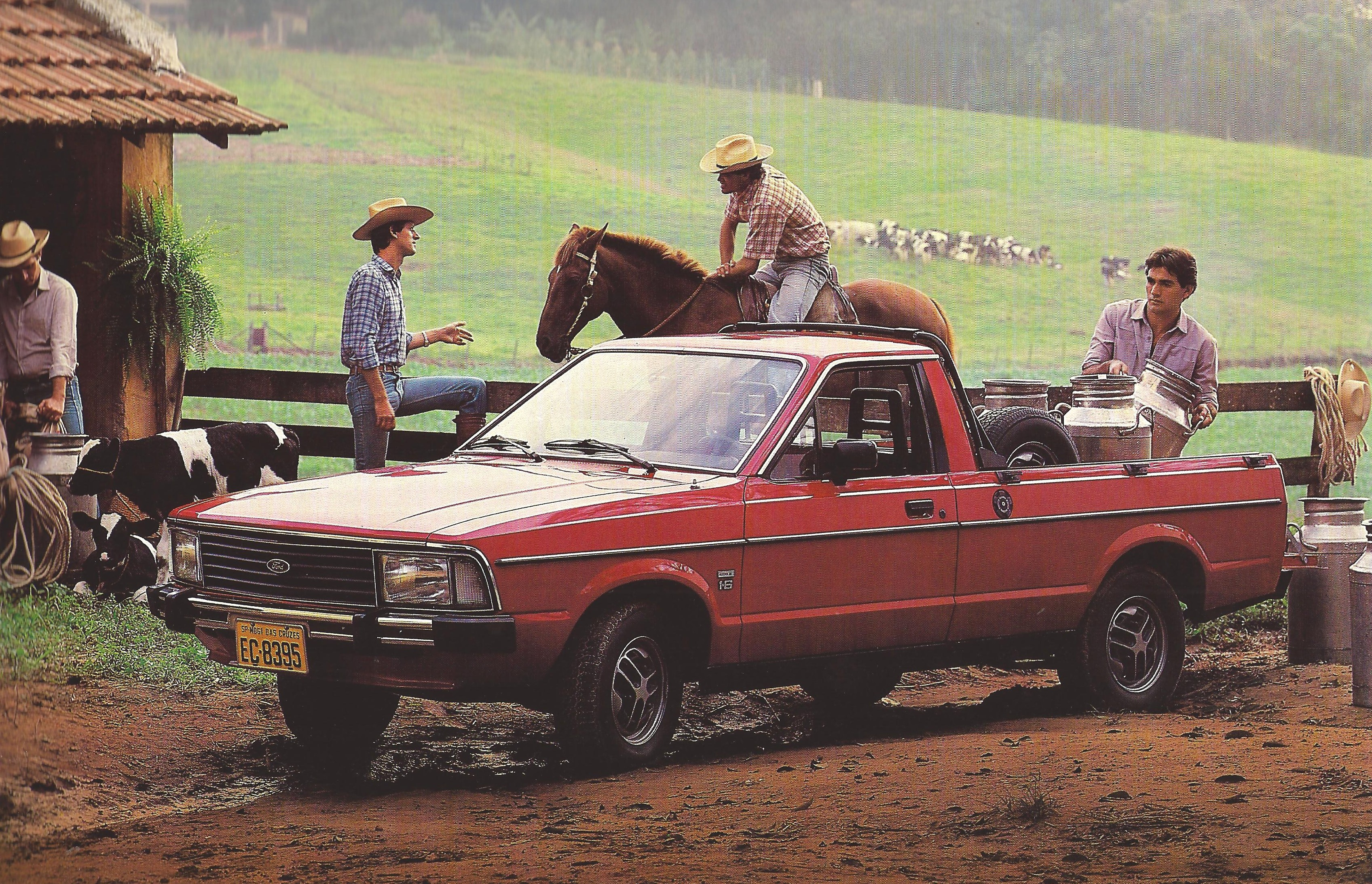 A page from the Brazilian brochure for this small Ford pickup, based on the Renault 12 platform. In the late sixties, Ford bought out Willys Motors in Brazil, who had been the builder of Renault cars. Willys was well on their way to introducing the R12, so Ford restyled them to look like Fords and started a whole line of vehicles.